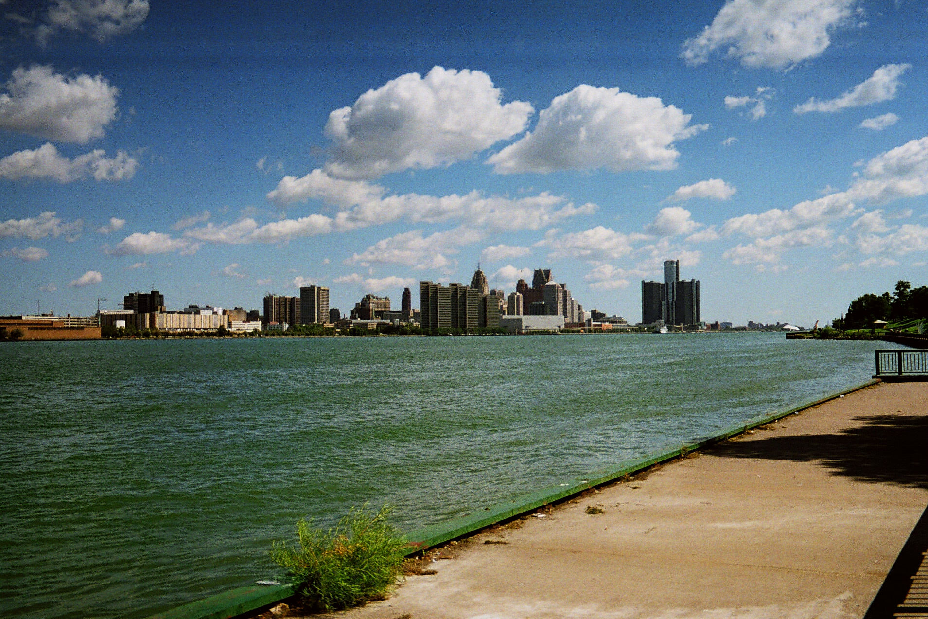 MY photo from Windsor near Ambassador Bridge looking upriver Category:Images of Windsor, Ontario